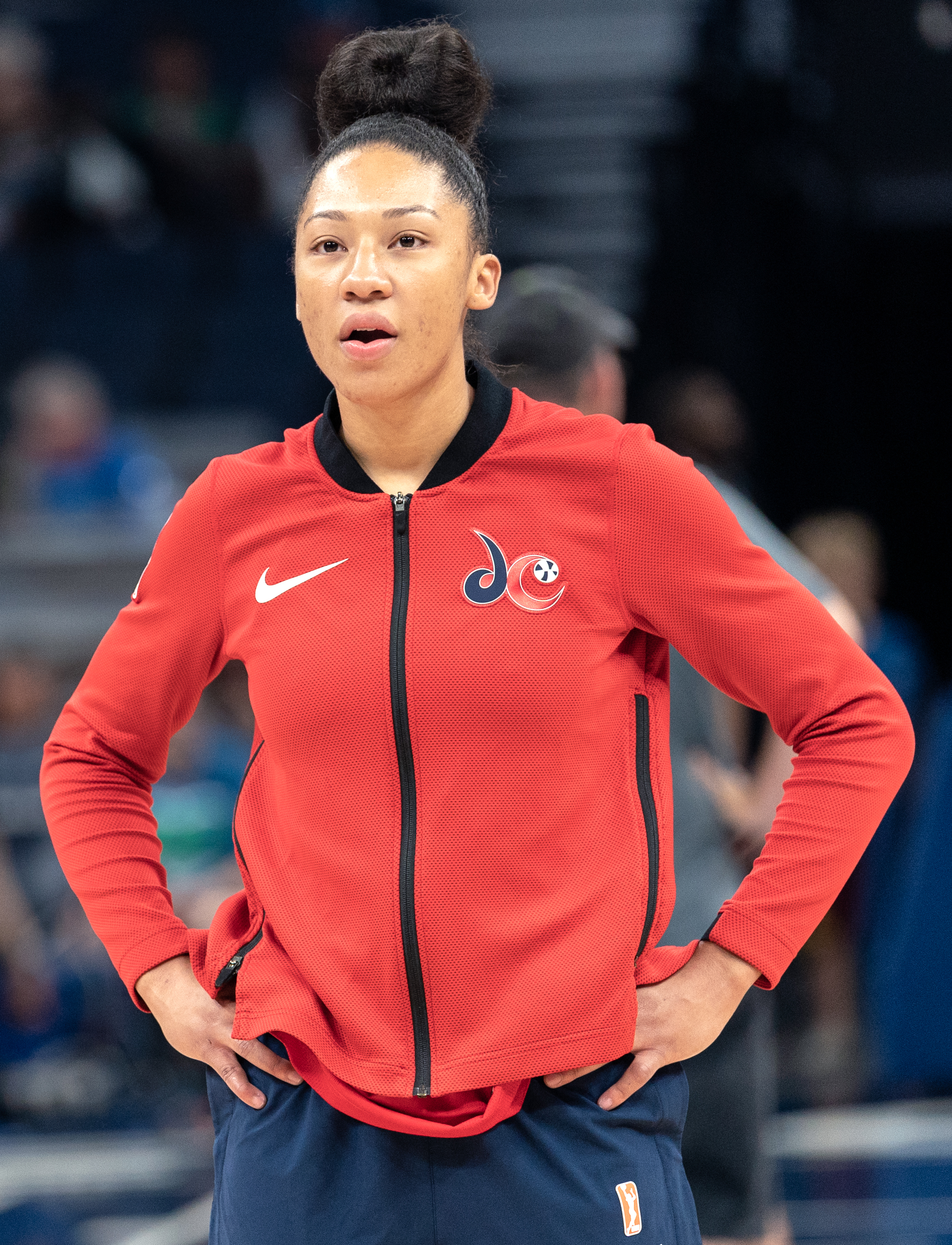 Washington Mystics player Aerial Powers during warmups before a game against the Minnesota Lynx